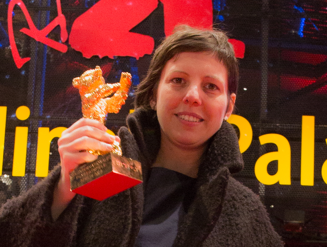 Director Adina Pintilie on the red carpert after winning the Golden Bear on the Berlinale 2018